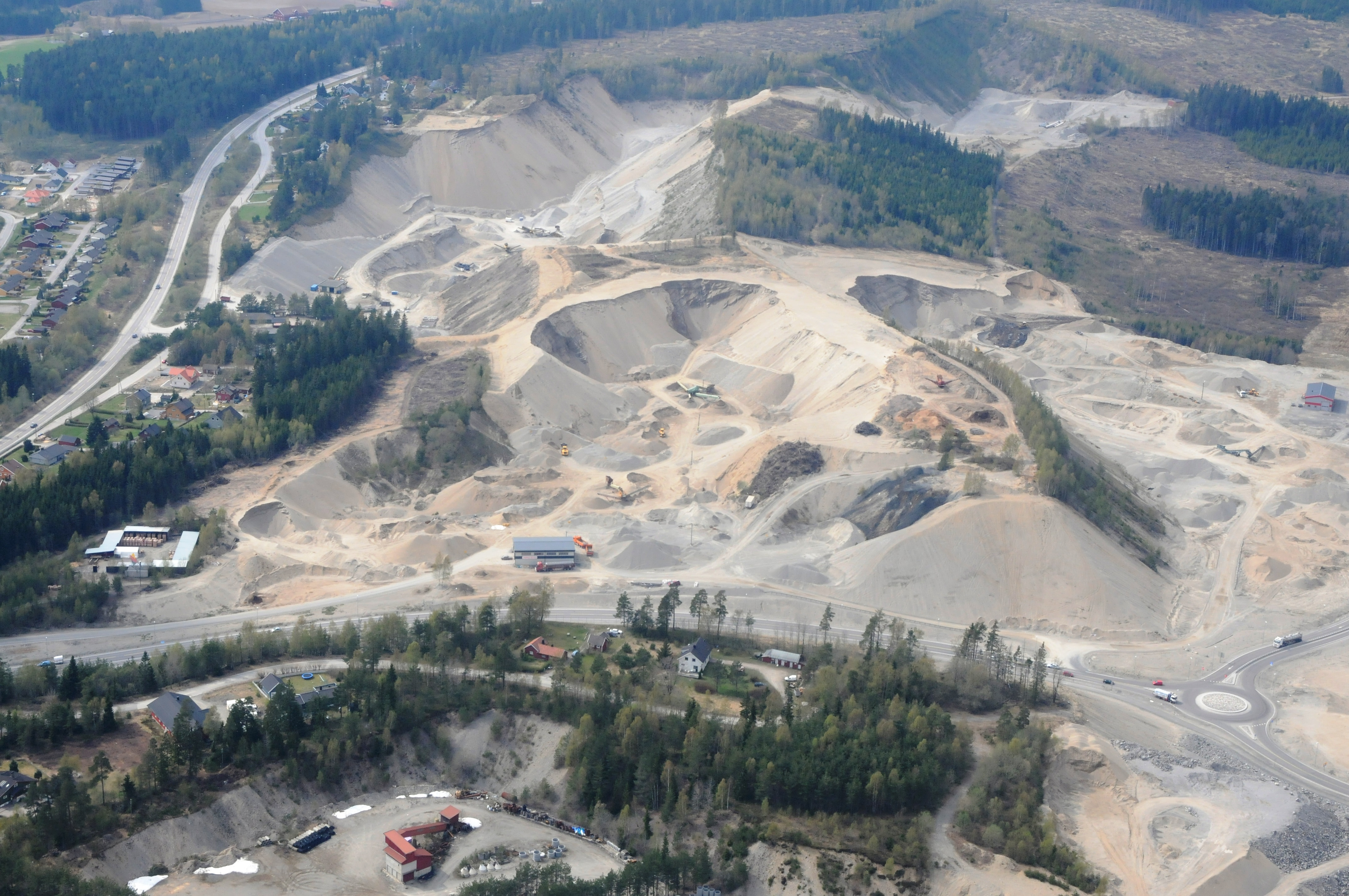 Monaryggen, Mysen